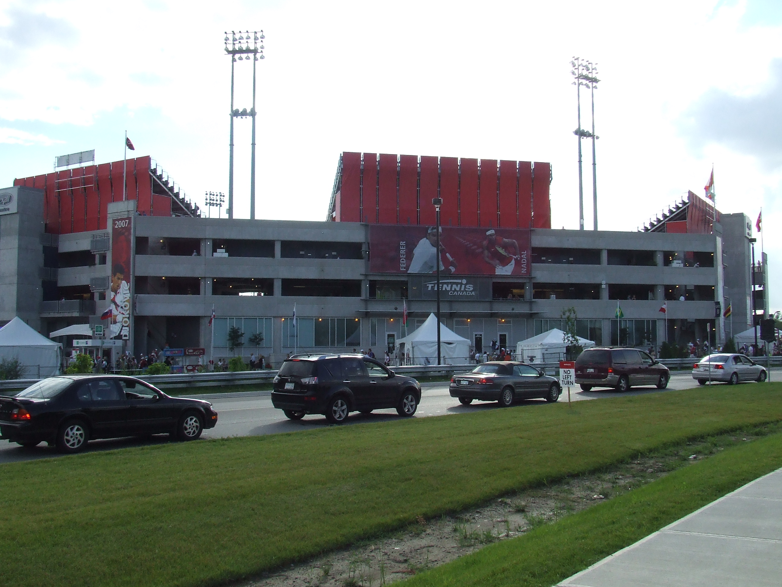 Rexall_Centre_at_York_Toronto_Canada, front